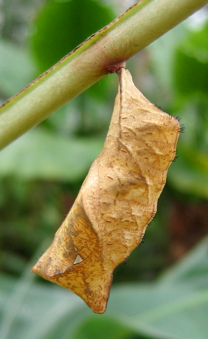 Pupa of Owl Butterfly Botanischer Garten München-Nymphenburg